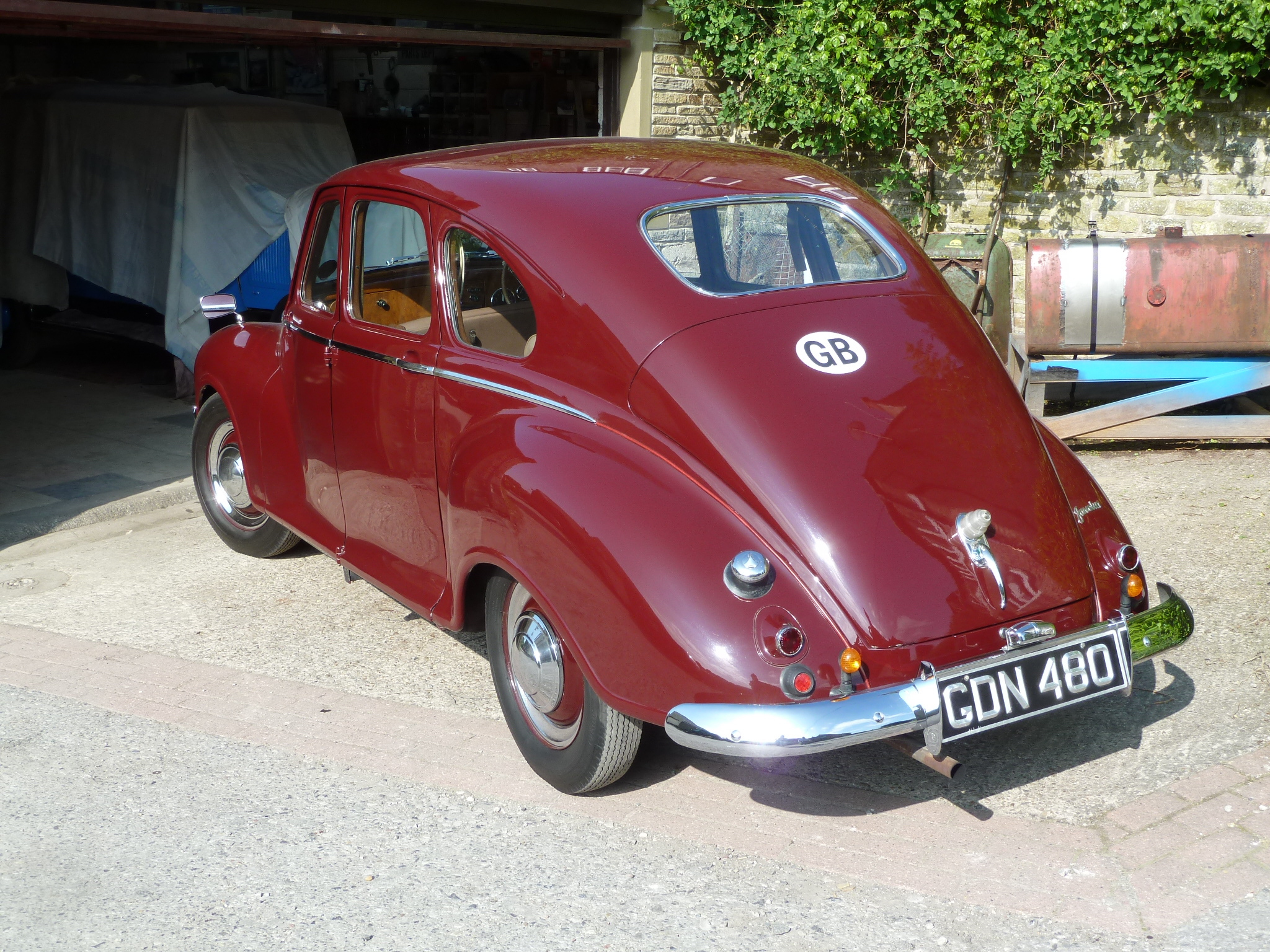 1952 Jowett Javelin